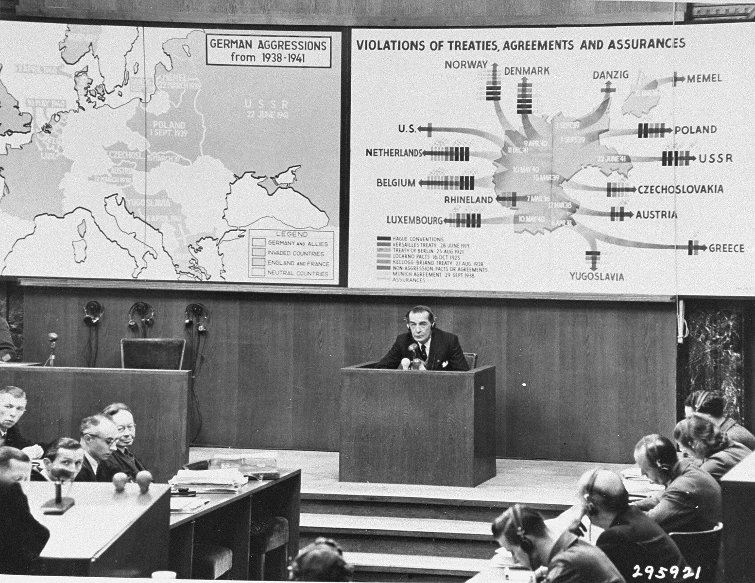 see title